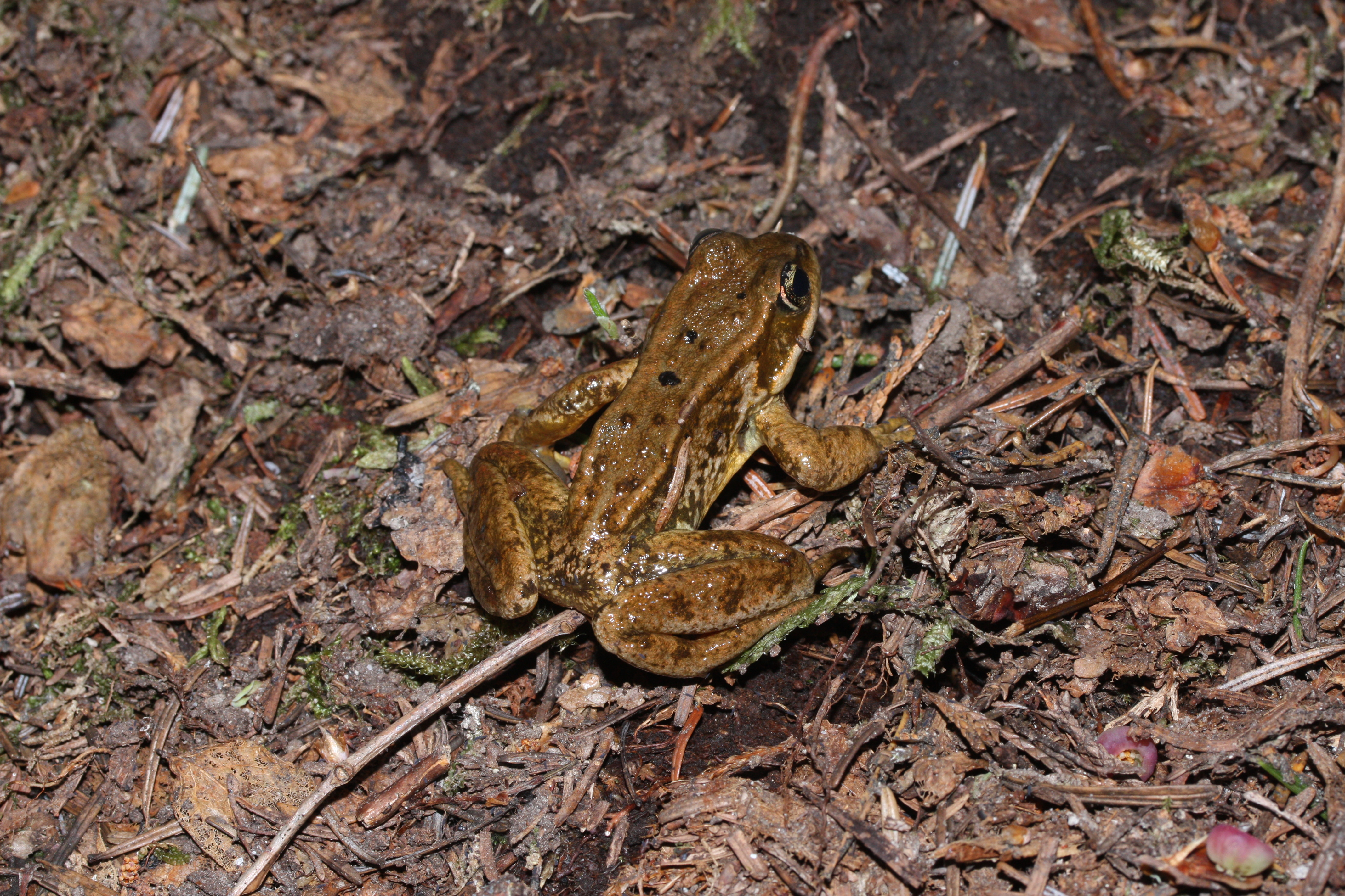 Cascades Frog